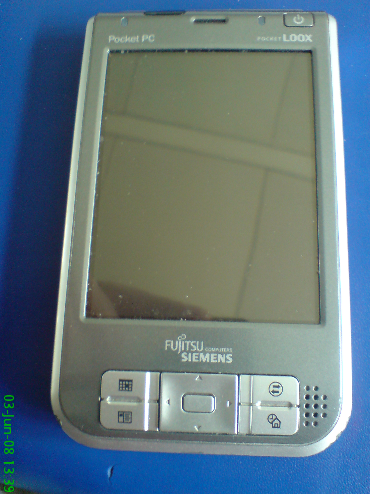 FSC Loox 720